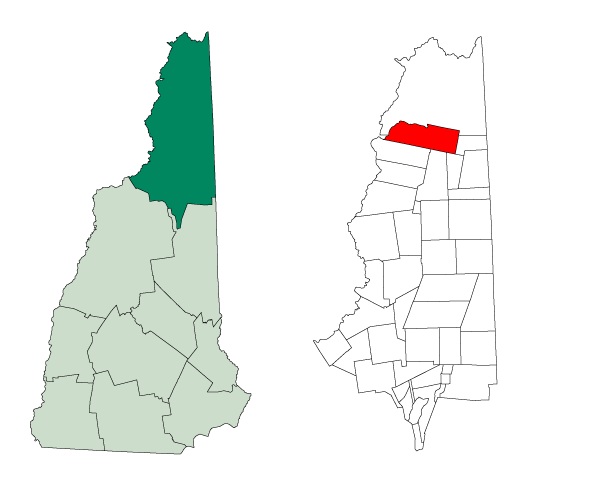 Map of a municipality in Coos County, New Hampshire